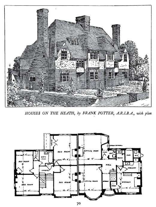 Frank J. Potter design extracted from Town planning and modern architecture at the Hampstead garden suburb by Unwin, Raymond, Sir, 1863-1940; Scott, M. H. Baillie (Mackay Hugh Baillie), 1865-1945.